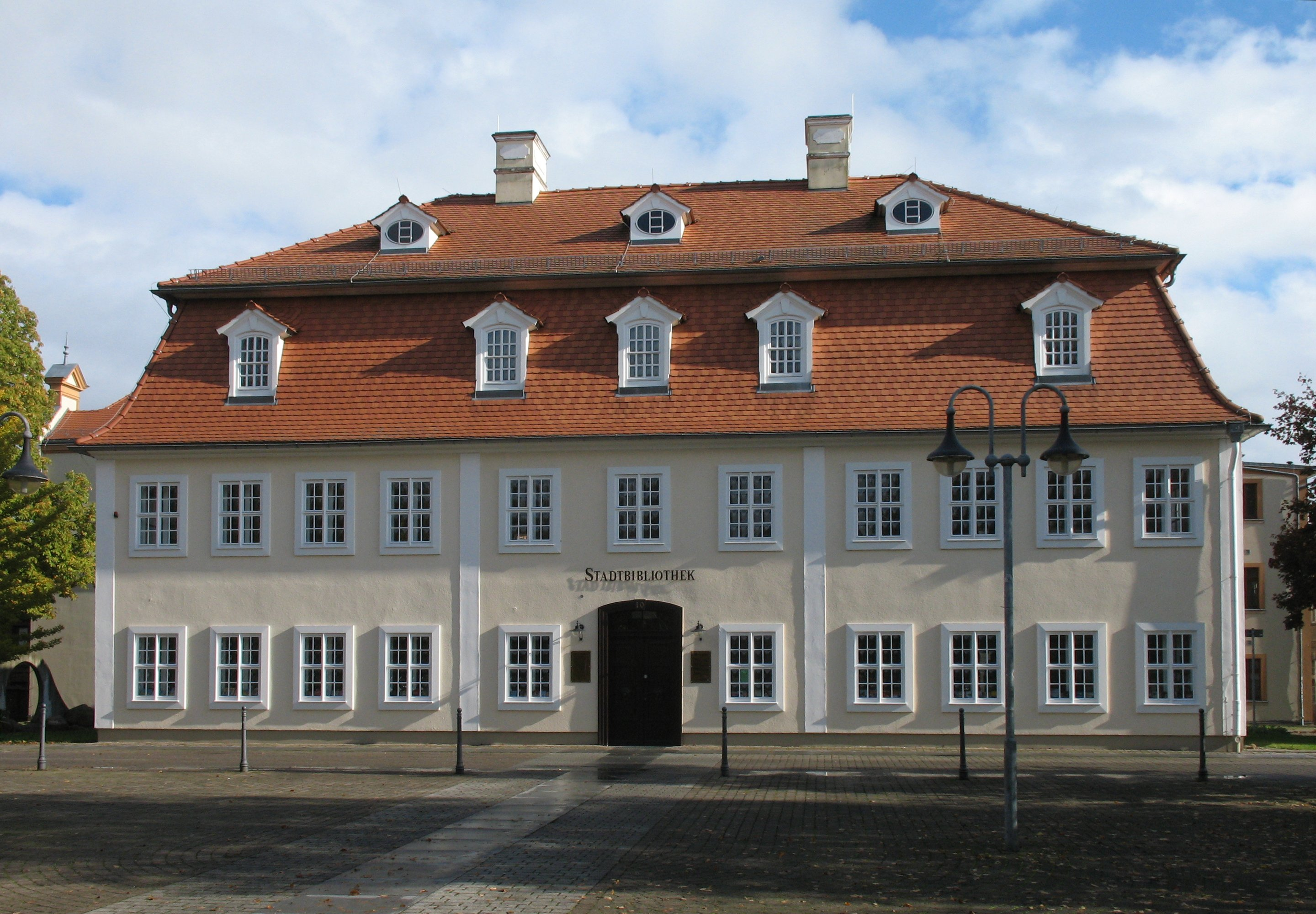 Public library in Niesky in Saxony, Germany